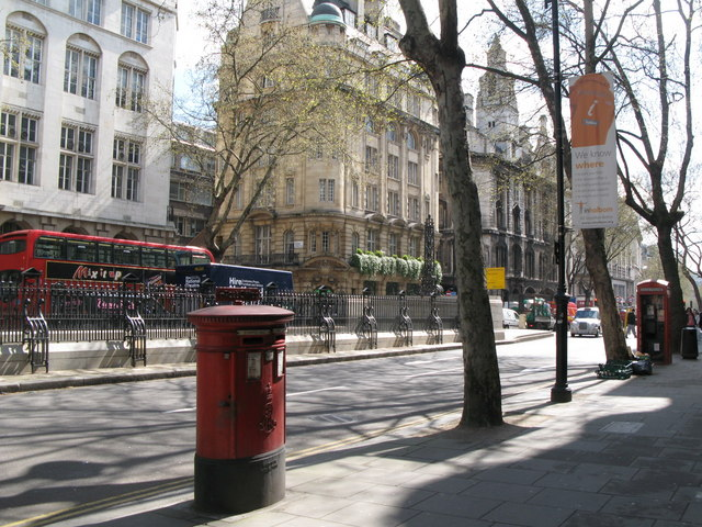 Southampton Row, WC1. Looking south towards 668972 (photo by Nigel Cox); shows the location of 1304493. Behind the postbox is the 665916 (photo by Nigel Cox).